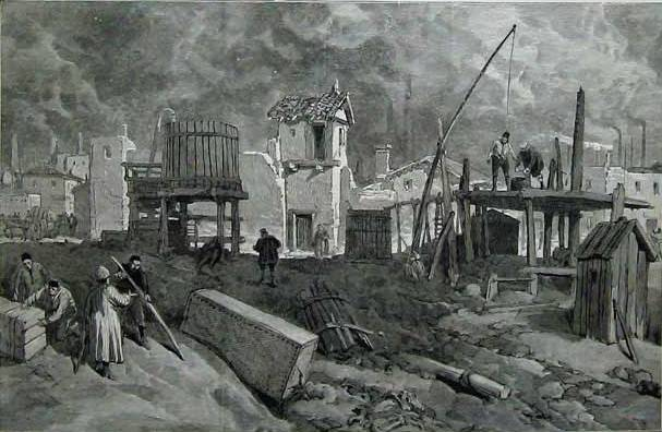 «THE PETROLEUM OIL WELLS AT BAKU: THE TCHERNY GOROD OR BLACK TOWN.»